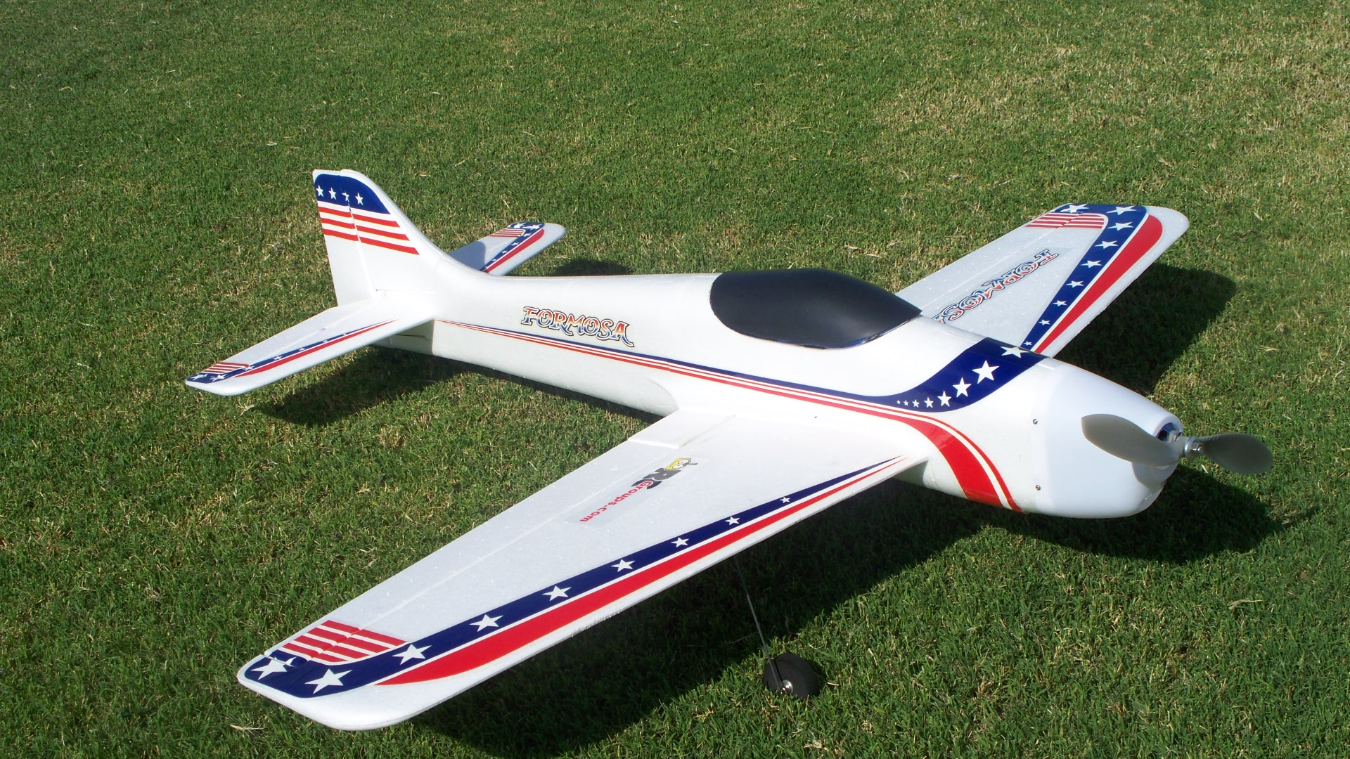 Modified Grand Wing Servo-Tech "Formosa" radio controlled electric model airplane owned, photographed and flown by user SayCheese!